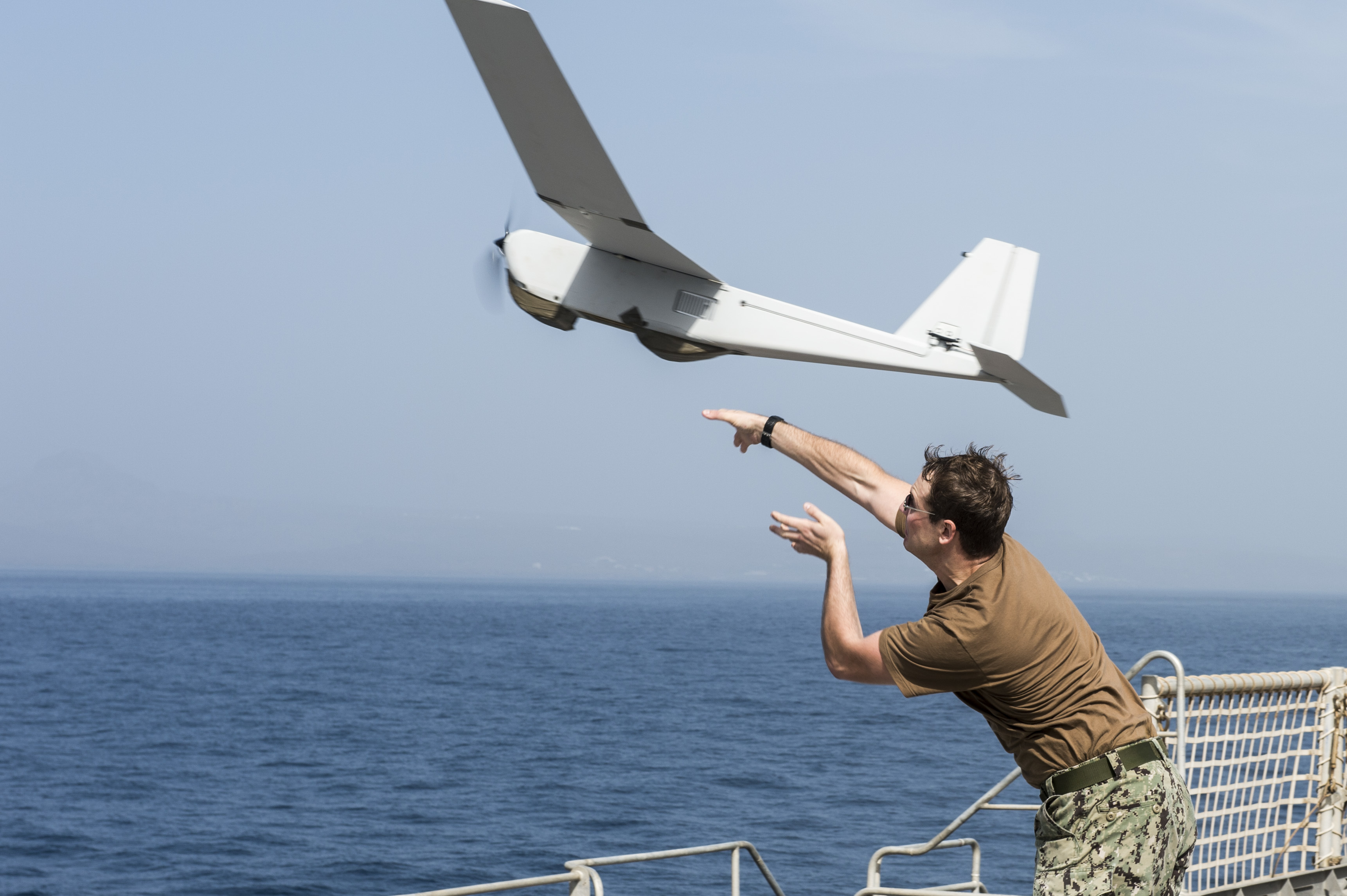 Intelligence Specialist 2nd Class Joshua Lesperance, from Spring Valley, Ill., launches a Puma Unmanned Aircraft System from the Coastal Riverine Force, while aboard the Military Sealift Command’s joint high-speed vessel USNS Spearhead (JHSV 1) Jan. 16, 2015. Spearhead is on a scheduled deployment to the U.S. 6th Fleet area of operations in support of the international collaborative capacity-building program Africa Partnership Station. (U.S. Navy photo by Mass Communication Specialist 2nd Class Kenan O’Connor/Released)